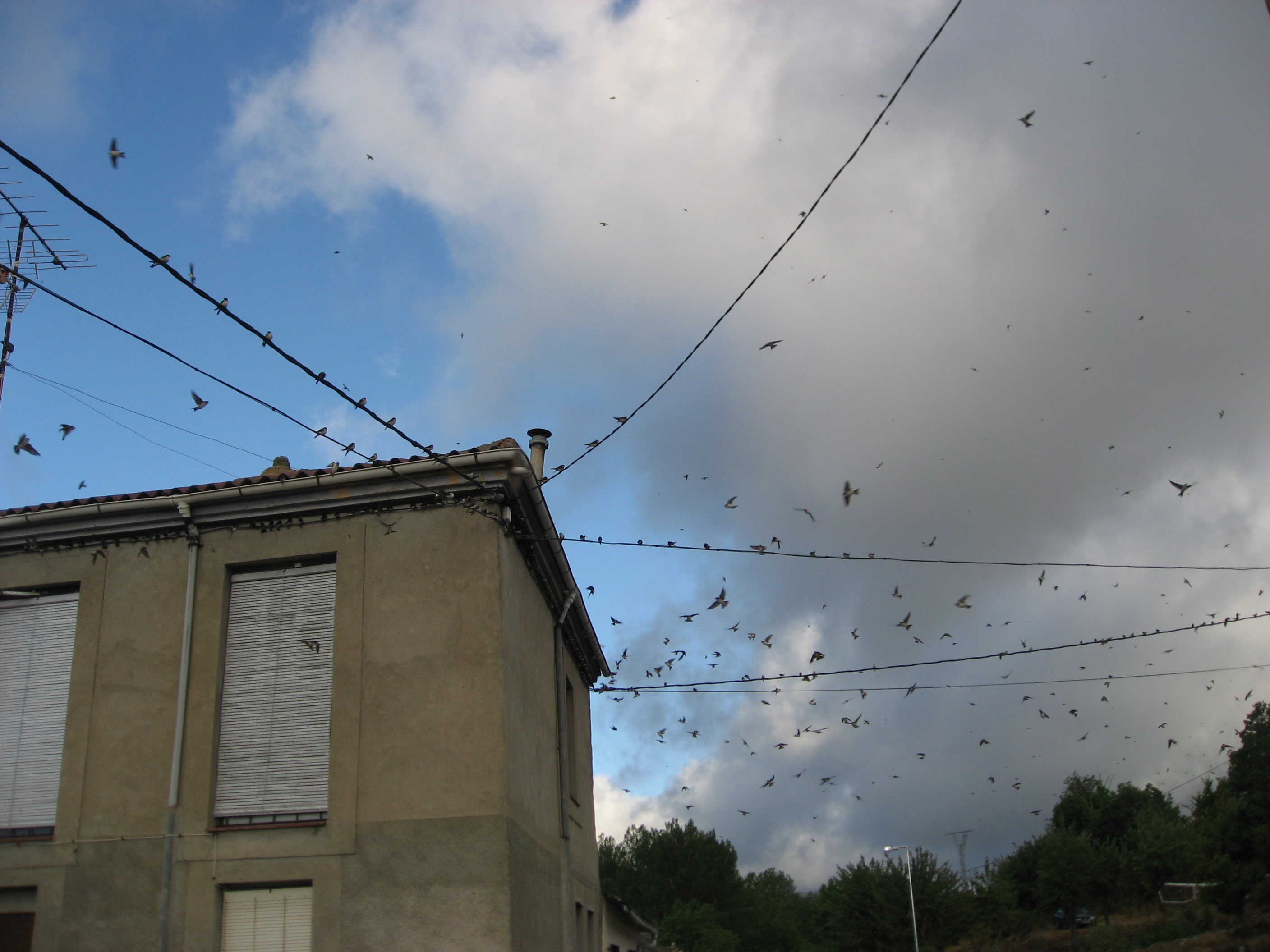 Bandada de golondrinas en el barrio de "El Solano"